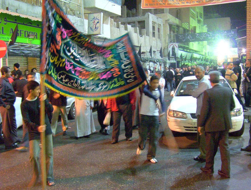 A banner being carried in a procession during the Festival of Muharram. Taken on February 12, 2005 in front of Matam Ajam al Kabeer, Imam Hussain Avenue, central Manama, Bahrain. Taken by myself (Chan'ad Bahraini). More information about the photo, and more photos from this set can be found on my blog post.